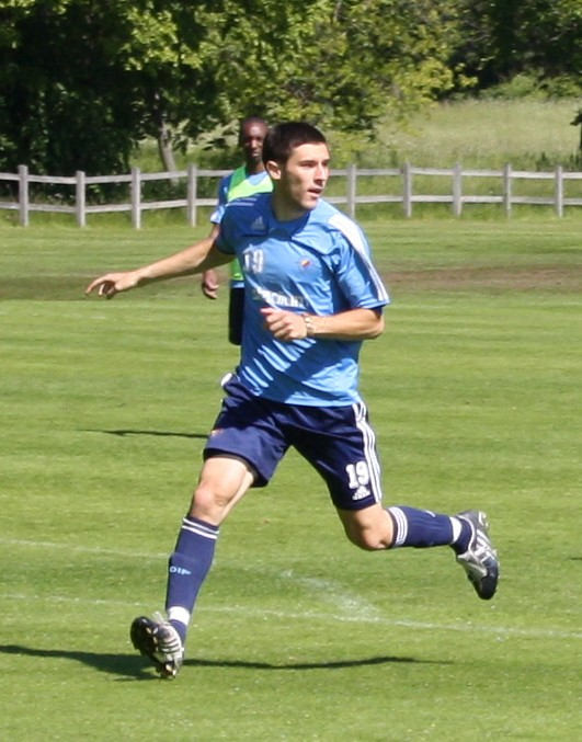 Croatian football player Hrvoje Milić